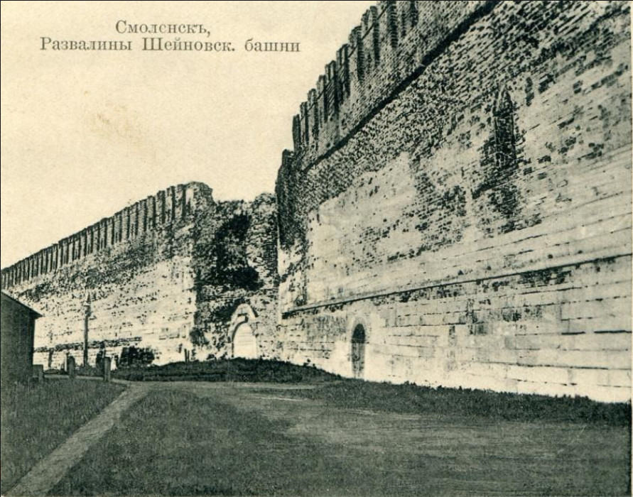 The ruins of the tower Sheynovskaya Smolensk fortress wall.